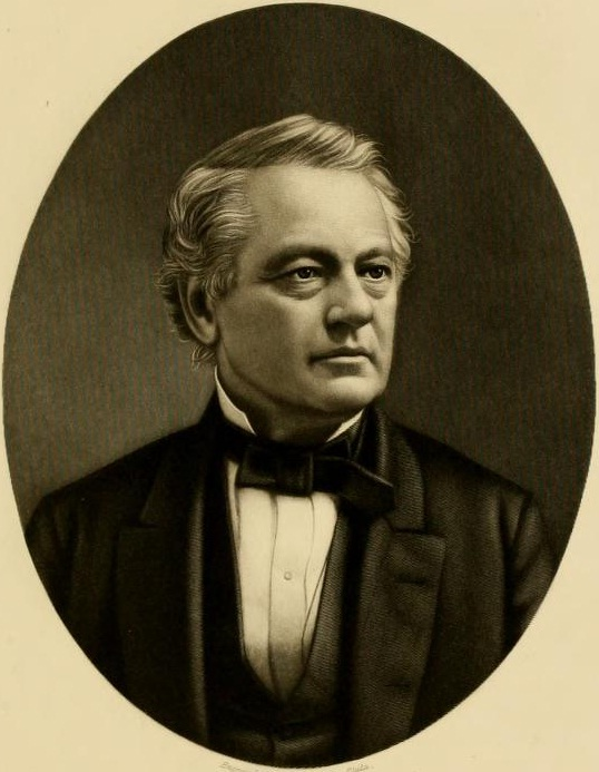 Portrait of New York Court of Appeals judge William Fitch Allen